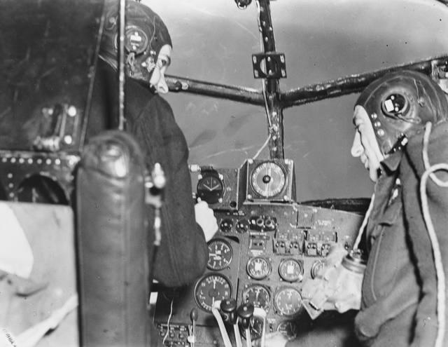 AWM caption : "PRESTWICK, SCOTLAND. C. 1944-10. FLIGHT LIEUTENANT E. A. HUDSON DFC AND BAR, ROCKHAMPTON, QLD, LEFT, CAPTAIN OF THE AIRCRAFT, "GEORGE", RUNNING UP THE MOTORS JUST BEFORE TAKE-OFF ON THE FLIGHT TO AUSTRALIA. THE SECOND PILOT FLYING OFFICER F. P. SMITH DFC, NEWCASTLE, NSW, LOOKS ON. THE VETERAN RAAF LANCASTER "G FOR GEORGE" OF NO. 460 SQUADRON RAAF, SET OFF ON THE 1300 MILE FLIGHT FROM PRESTWICK AERODROME, TO AUSTRALIA VIA CANADA AND THE UNITED STATES. IT WAS HER NINETY FIRST "SORTIE" FROM BRITAIN".